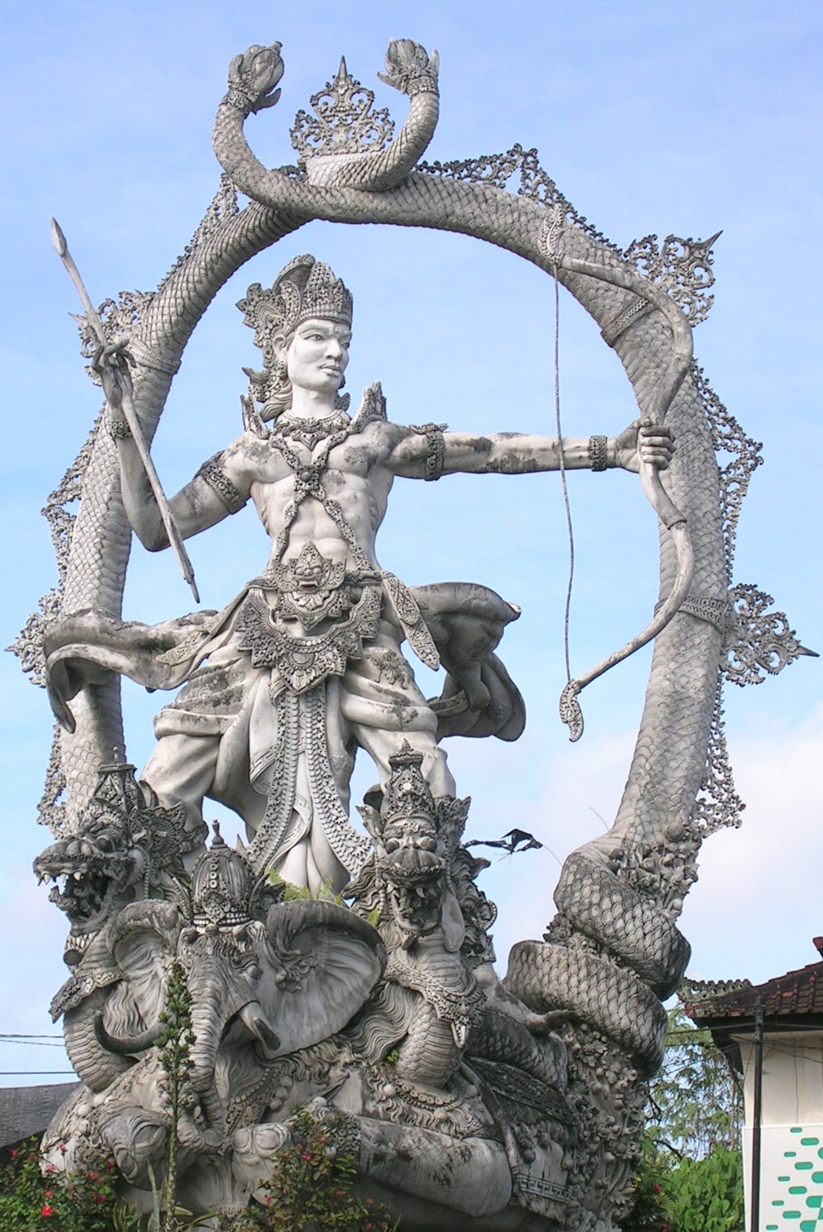 Arjuna statue at an intersection just outside Ubud, Bali.